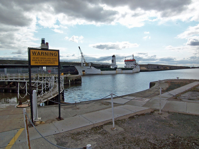 Albert Dock, Hull On the left are the inner lock gates. As can be seen from the photo these enclosed docks are very under-utilised nowadays.